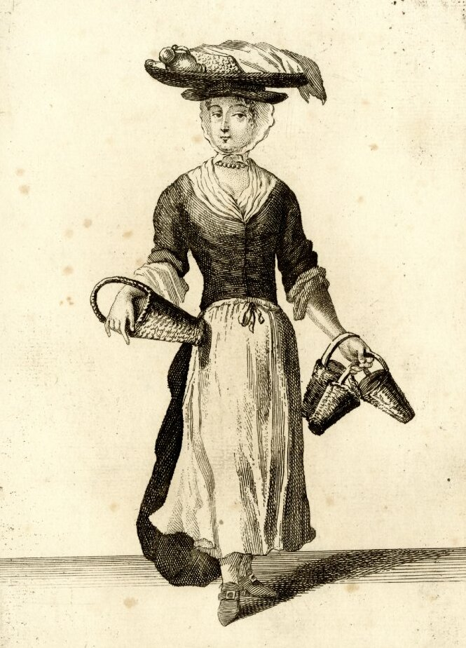 A strawberry seller standing to front, carrying fruit on a large flat basket on her head, and pottles in her hands; from late series of the 'Cries of London', the plate considerably reworked with altered hat, neck and shoes. 1688, reworked and published after c.1750. Etching